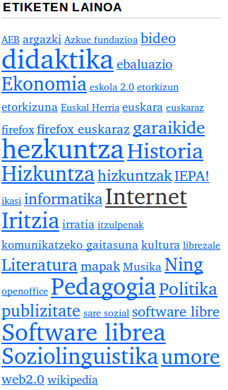 Tagcloud (Basque-eu)